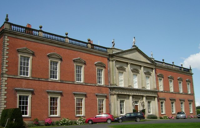 Staunton Harold Hall One hundred and seventy two external windows and doors currently in need of paint! Became a Sue Ryder Home in 1989 to specialise in palliative care.